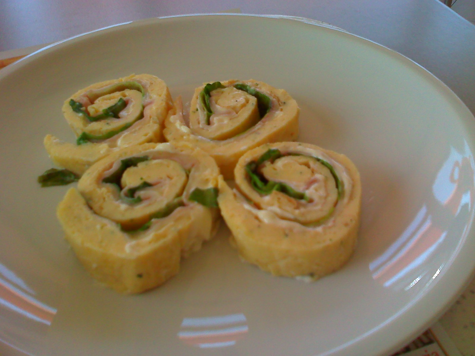 I forgot what this was called...mayo, spinach, deli meat rolled in dough